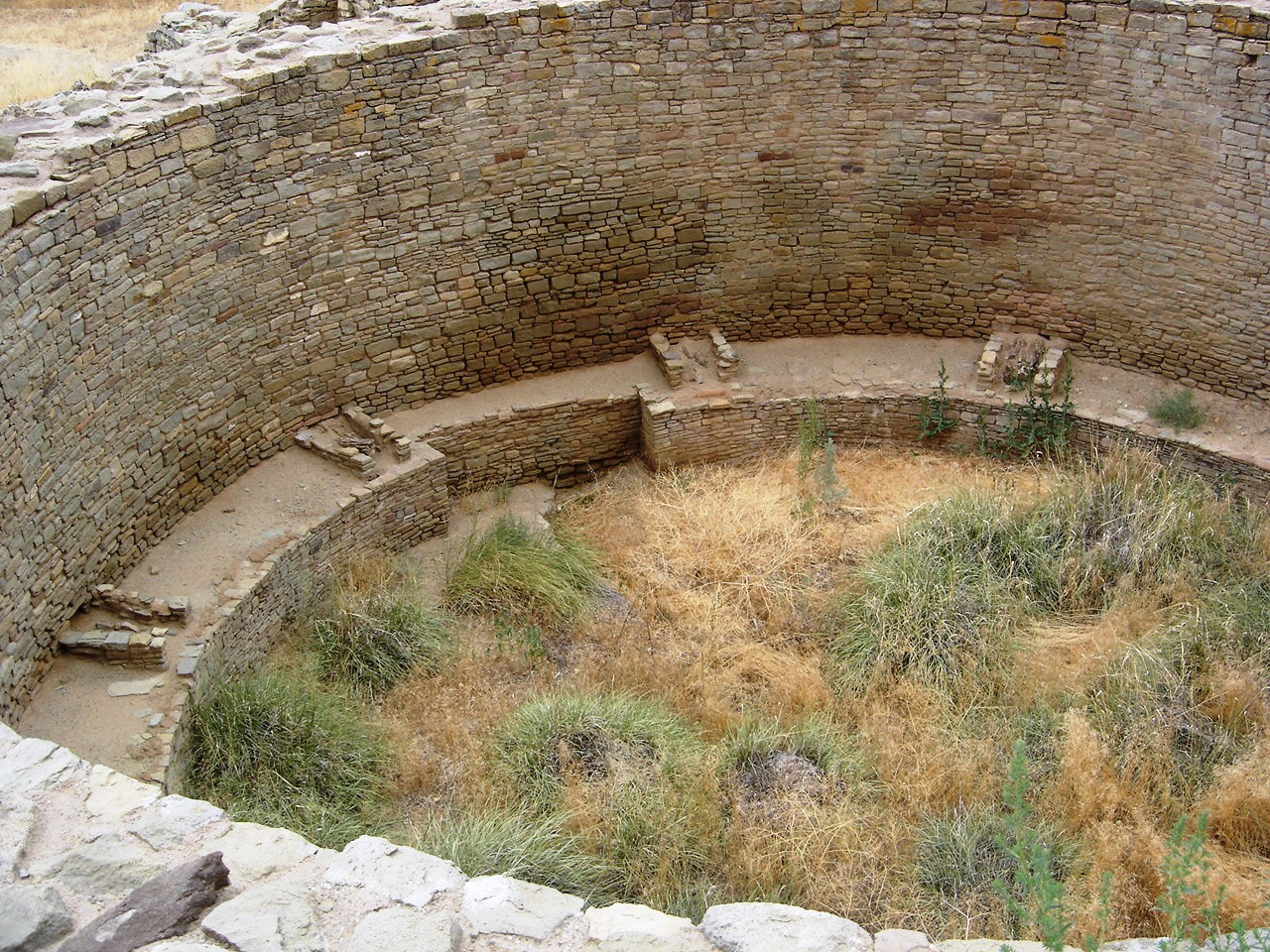 Aztec Ruins National Monument, New Mexico, USA